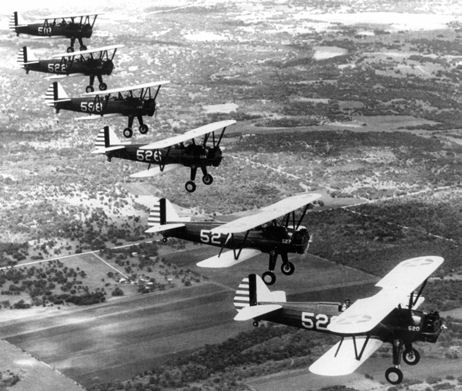 formation of PT-17 "Kaydets" used as primary trainers throughout World War II.